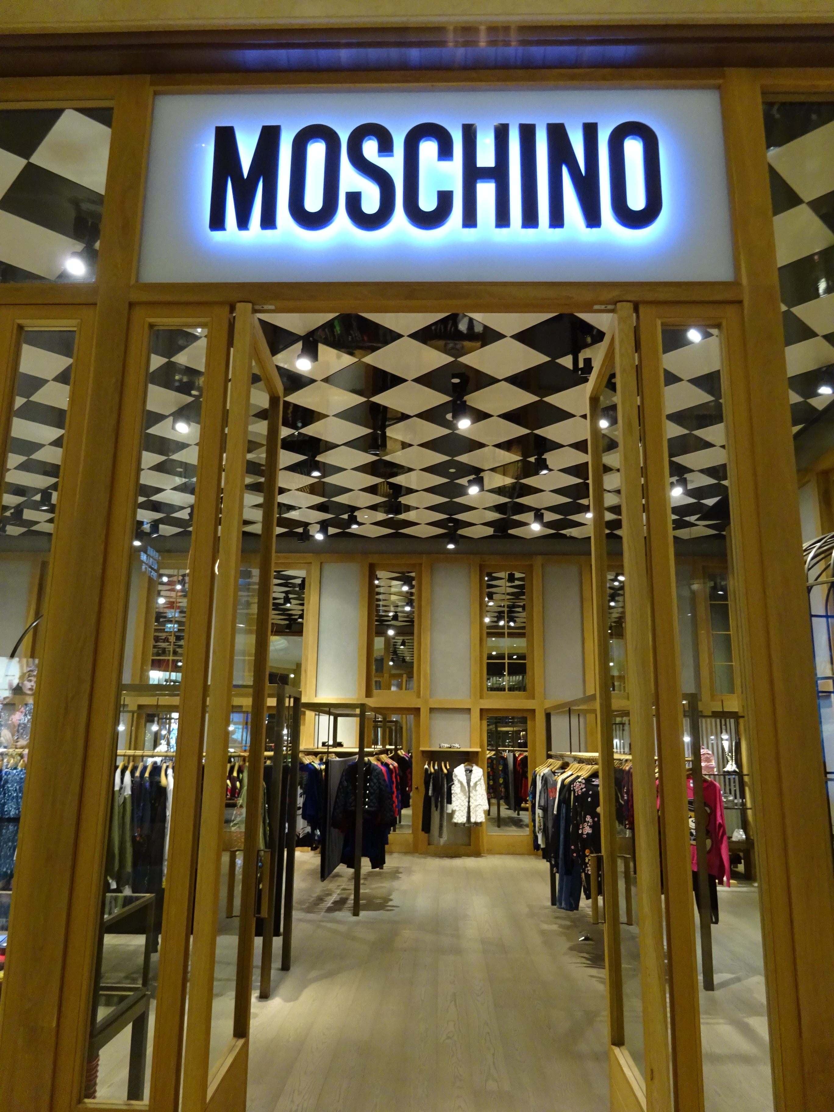 澳門 Macau 路氹城 Cotai 四季名店 Shoppes at Four Seasons in November 2016